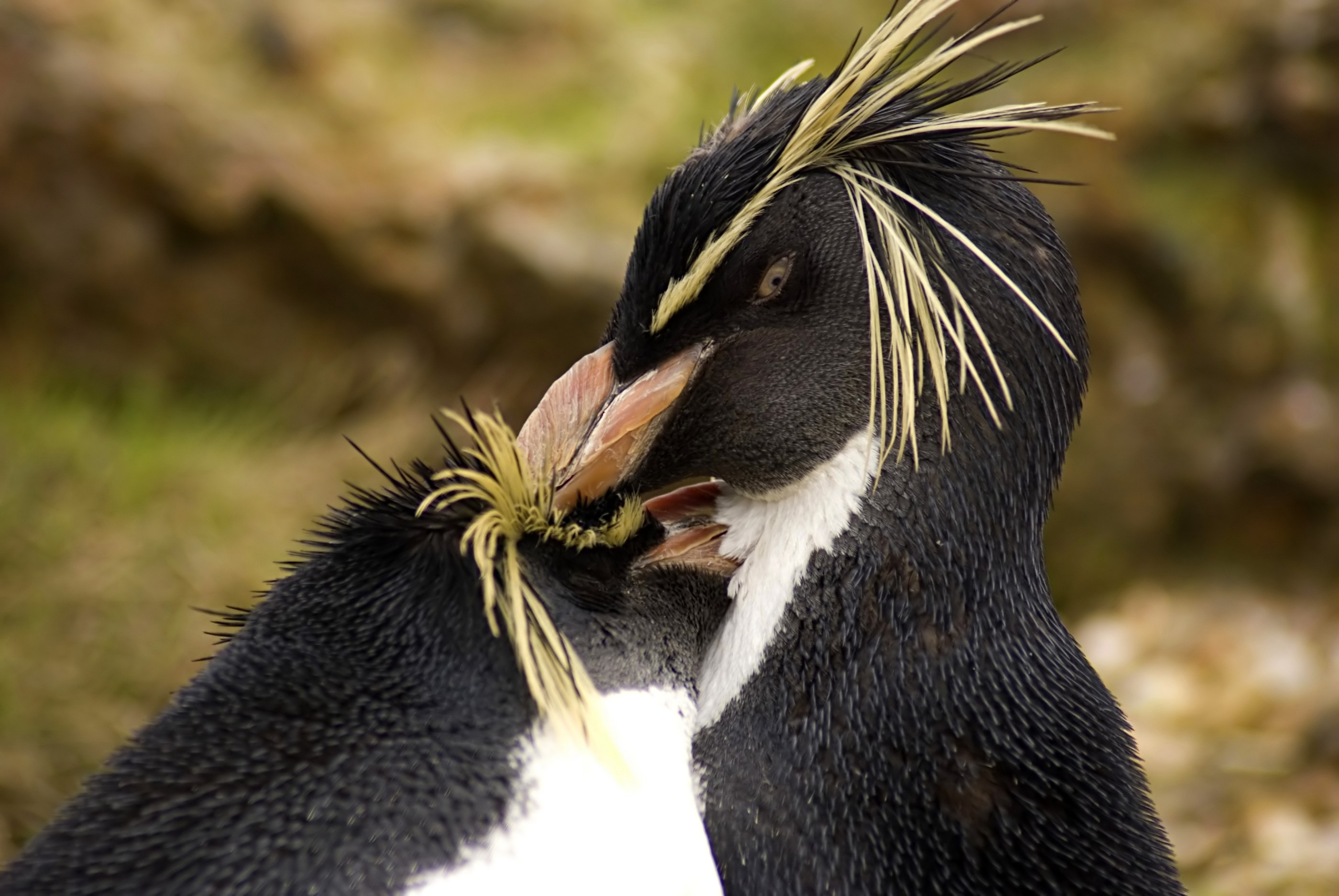 Rockhopper Penguins (Eudyptes chrysocome) preening at Whipsnade Zoo, Bedfordshire, England.